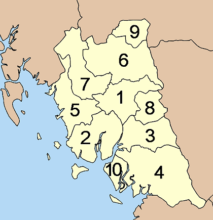 Map of Trang province, Thailand, showing the districts (Amphoe). Muang Trang Kantang Yan Ta Khao Palian Sikao Huai Yot Wang Wiset Na Yong Ratsada Hat Samran